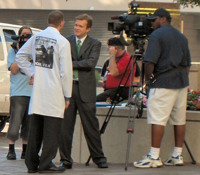 Dr. Samuel C. Conway (Uncle Kage) talks to KDKA reporters outside Anthrocon 2006; BigBlueFox (left) records the event.